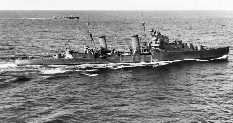 Aerial photograph of British light cruiser HMS Hermione (74), at sea.